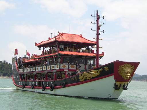 One of several options for transportation to and touring around popular destination Gulangyu Island in Xiamen, Fujian, People's Republic of China.